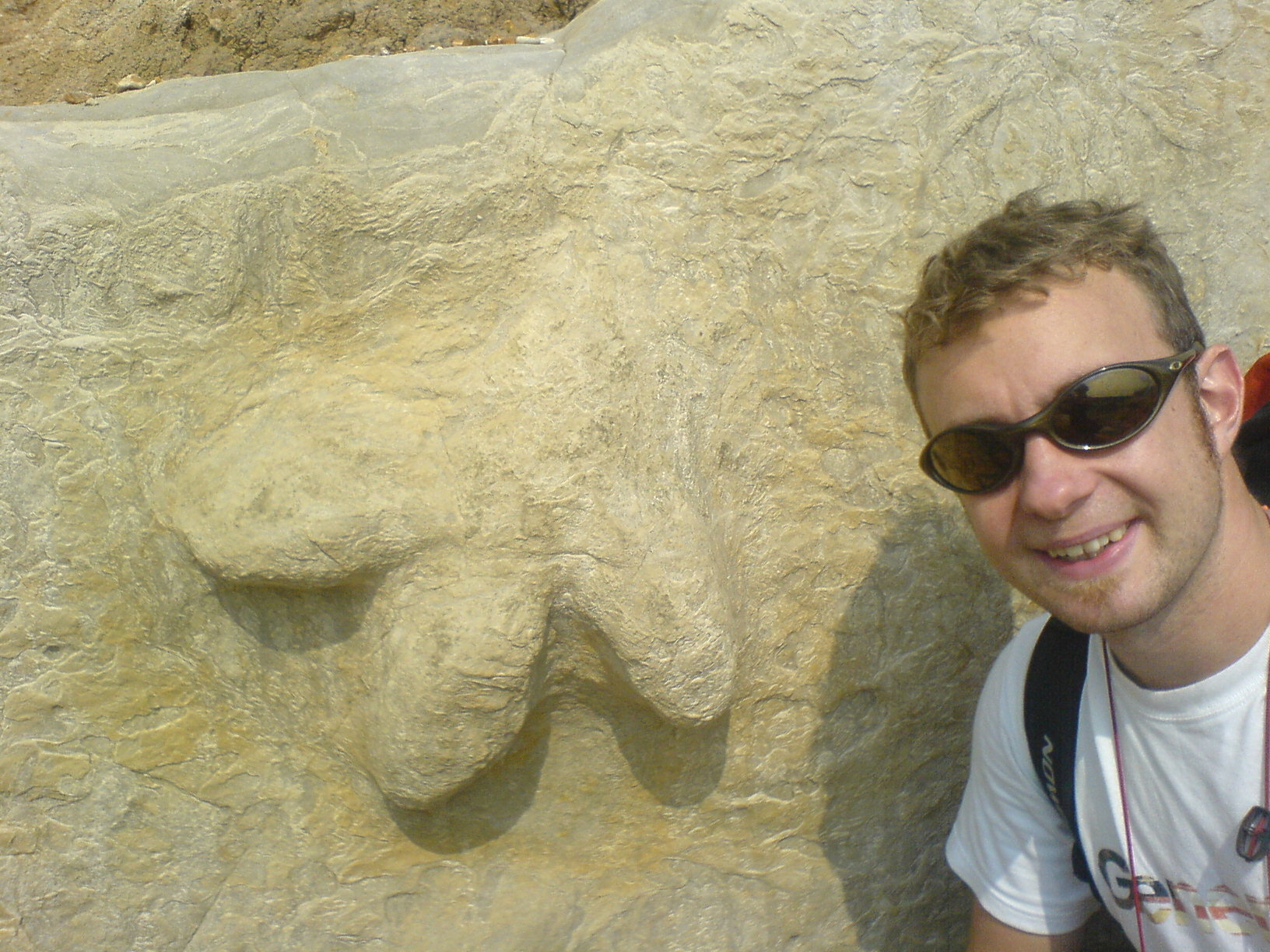 Iguanodon dinosaur footprint at Lee Ness Ledge (Hastings, East Sussex) in the Ashdown Formation of the Hastings Beds dating to the Early Cretaceous Period